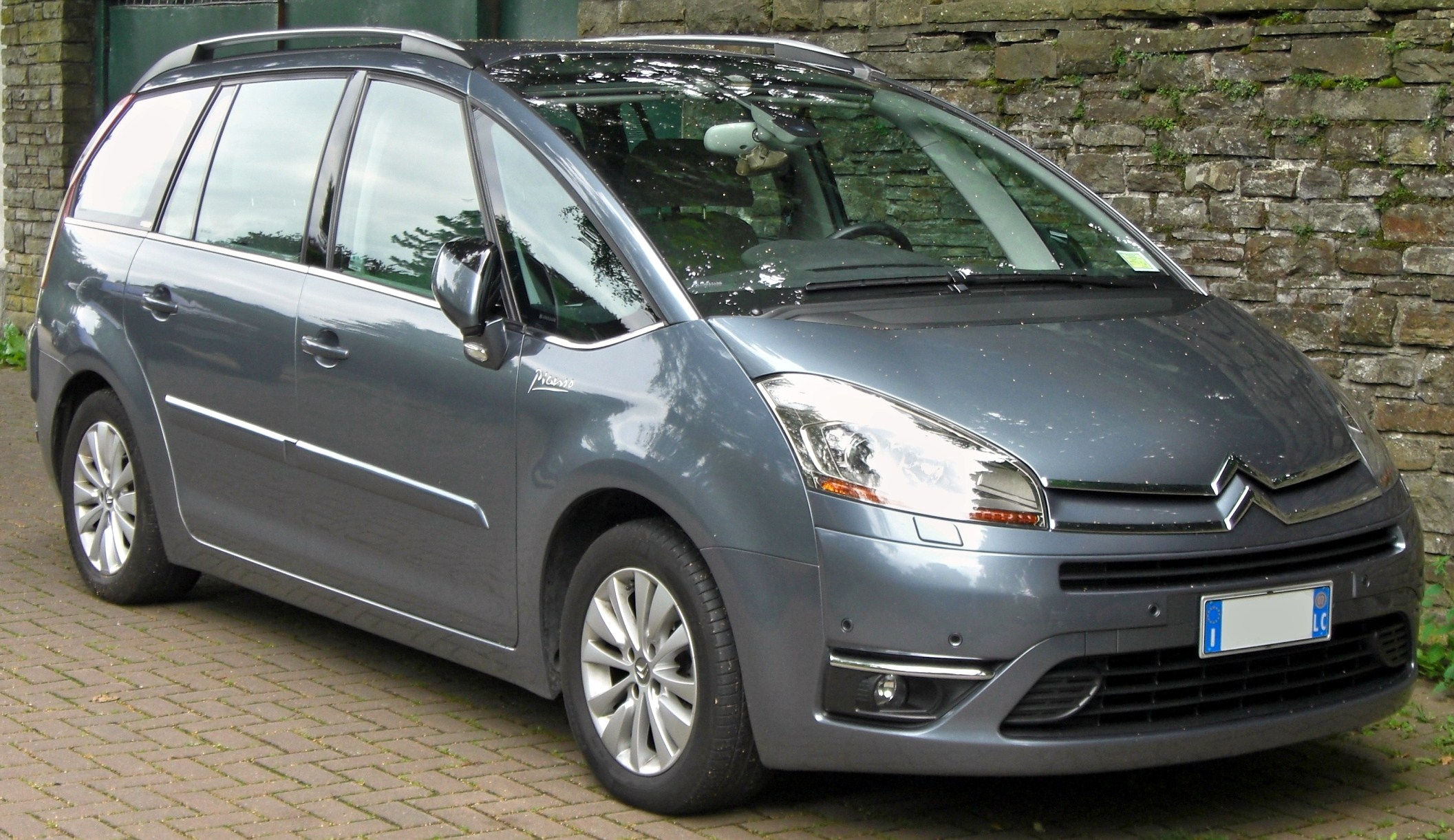 Citroën C4 Grand Picasso